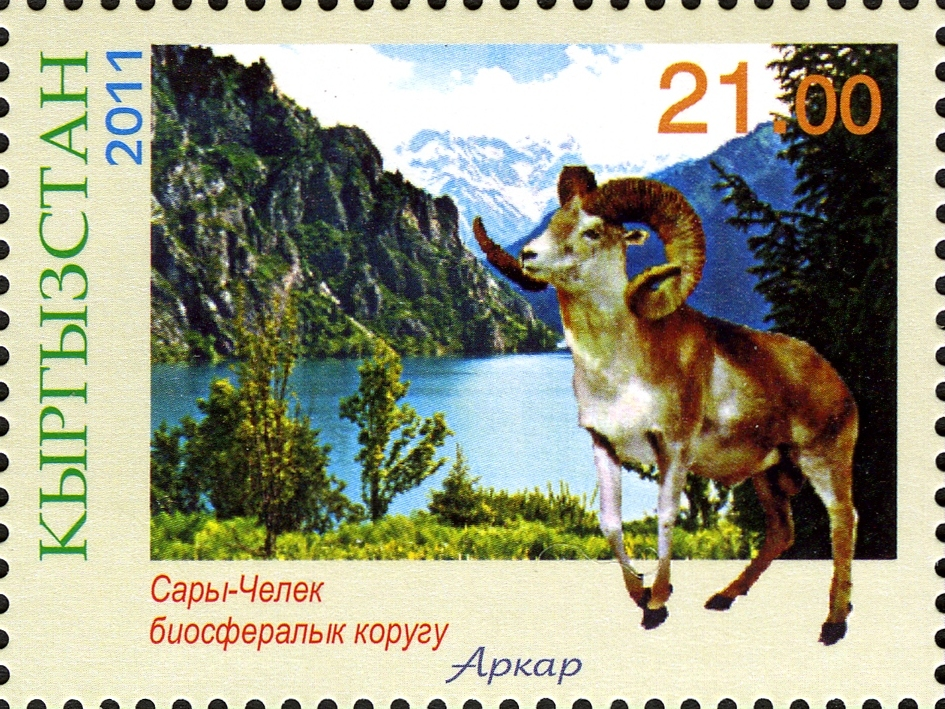 Stamps of Kyrgyzstan, 2011